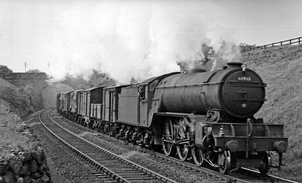 Up freight at Croxdale, south of Durham. View westward, towards Durham, Newcastle etc., ex-North Eastern ECML. This a typical freight on this stretch, headed by Gresley V2 2-6-2 No. 60952.